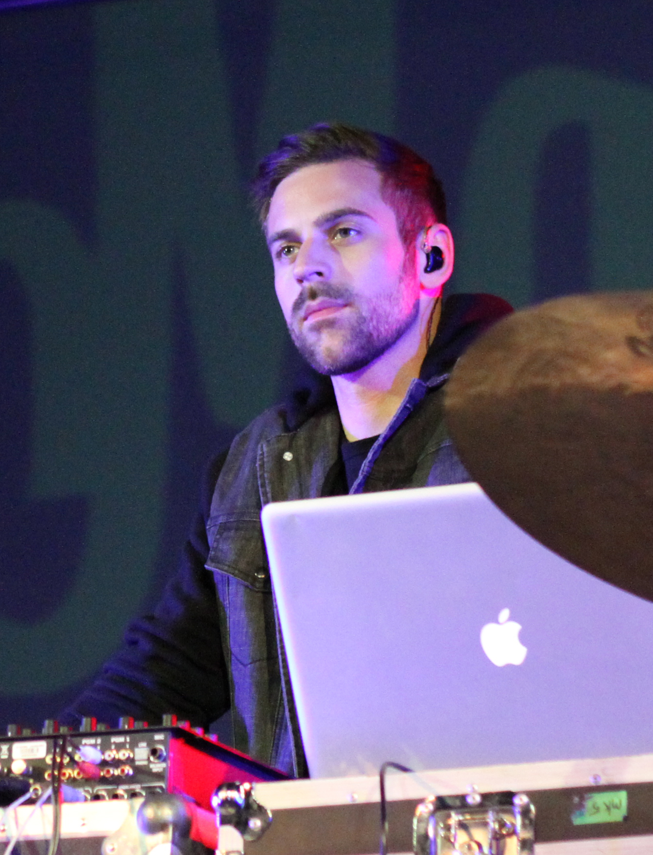 Macklemore and Ryan Lewis (only the latter pictured) perform at the University of San Francisco on 8 February, 2013.